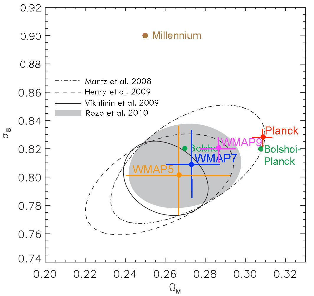 Key Cosmological Parameters σ8 and ΩM from WMAP and Planck Observations Compared with Millennium, Bolshoi, and Bolshoi-Planck Simulations